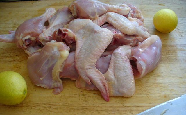 Created recipe and image myself.